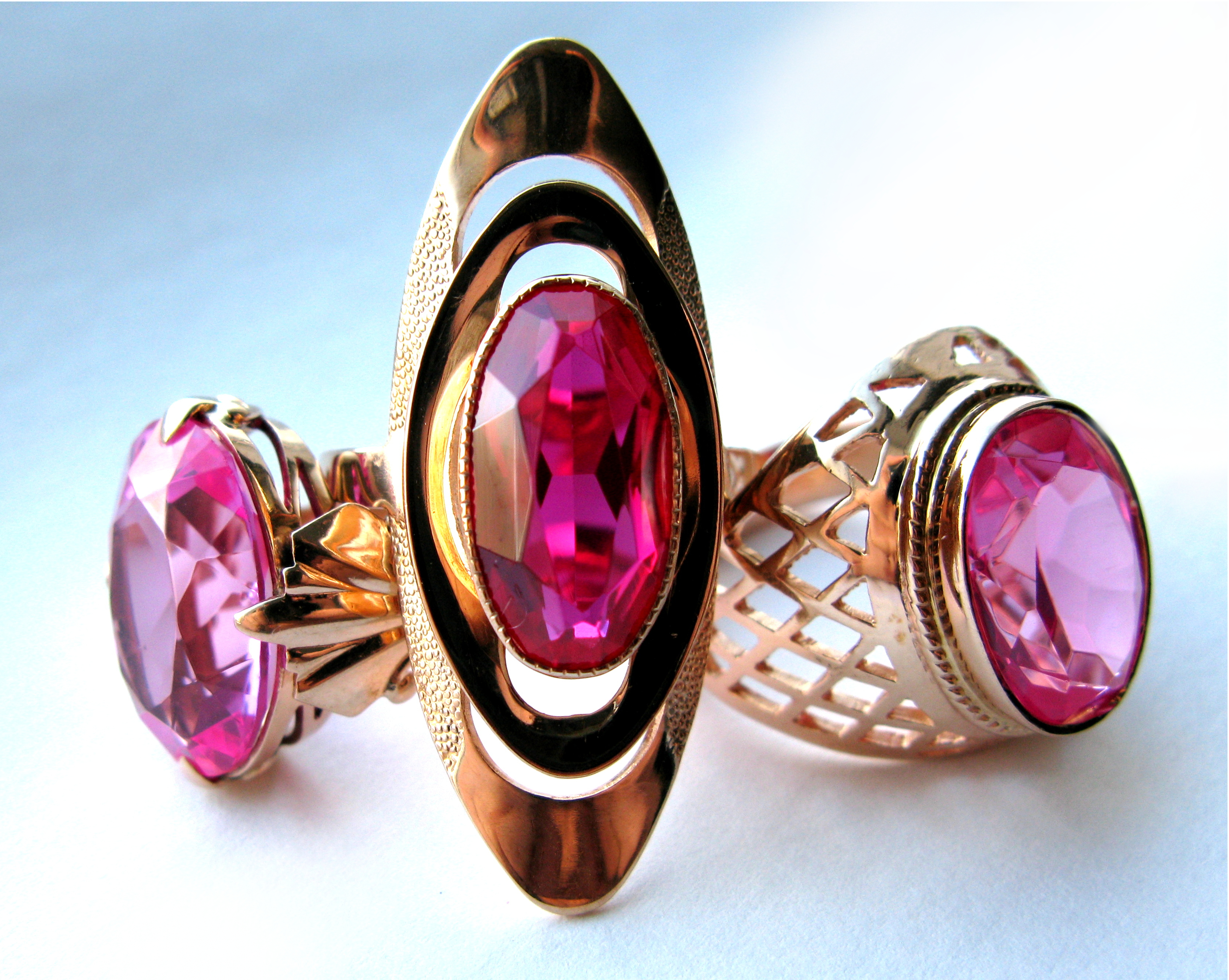 Soviet gold rings with rubies. These Soviet gold rings were published in the book: Soviet Jewelry - The Complete Series - 3 Books, by D. Tamoikin, 2012, Canada.